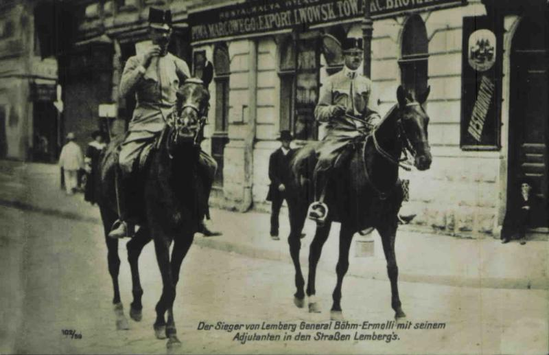 Der Sieger von Lemberg General Böhm-Ermolli